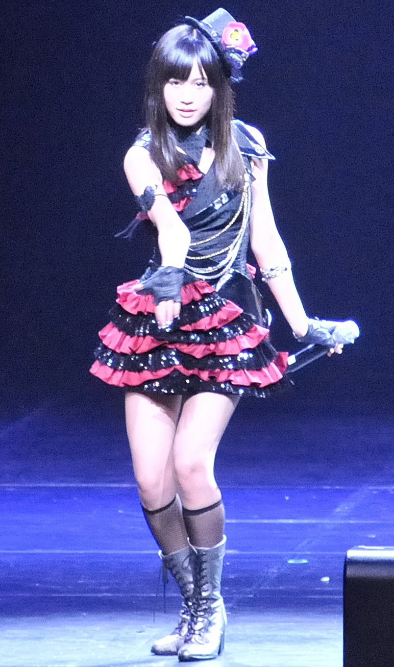 This image has been modified from the source image is provided under the CC-BY-SA license.